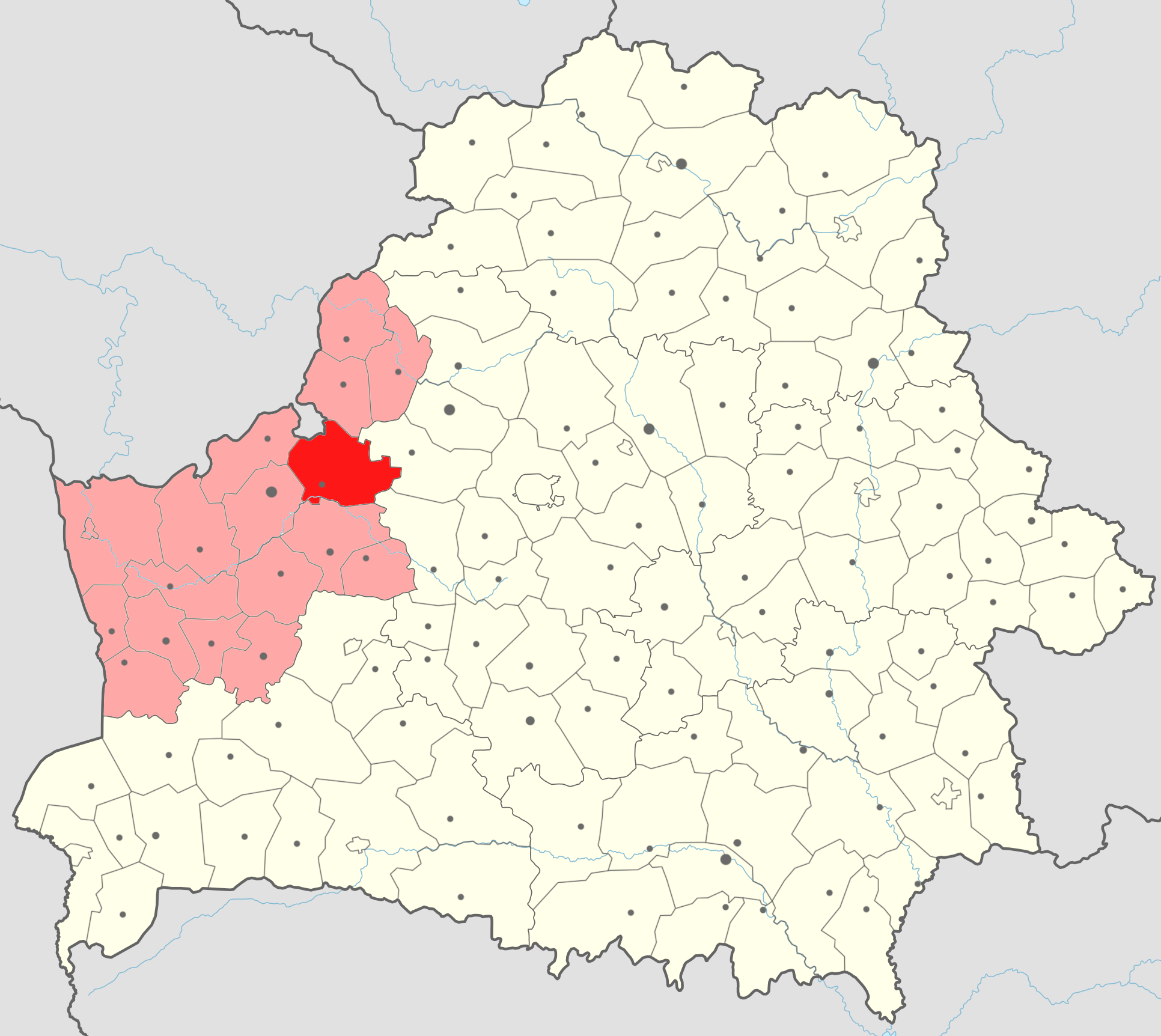 Map of Iŭjeŭski rayon (in red) with Hrodna voblast' (in light red) on the map of Belarus.